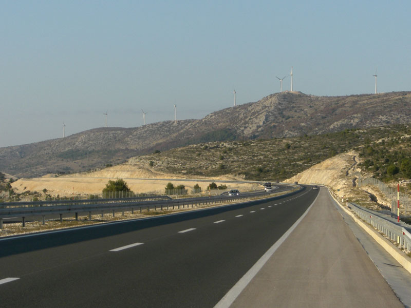 Trtat hill with windmills and A-1 highway, near Šibenik, Croatia